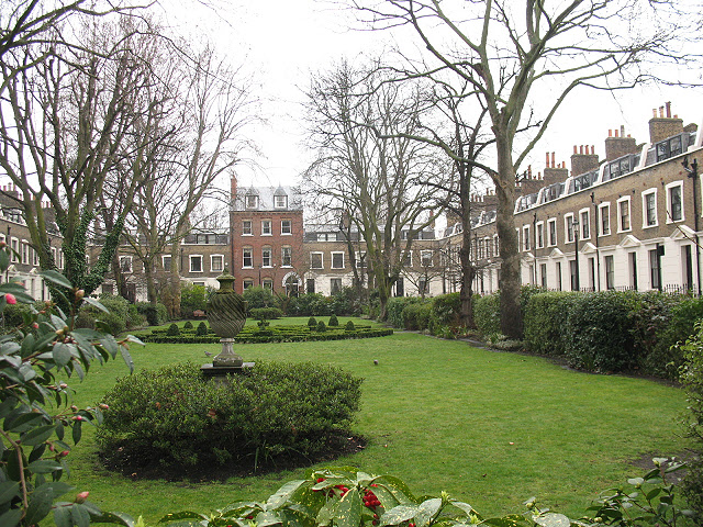 Merrick Square, off Trinity Street (1). This photo shows the private gardens in the centre of the square. See also 1765998.